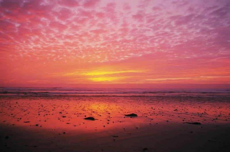 Sunset during December at Cardiff-by-the-sea, San Diego. Author: Amar Photograph on film, scanned